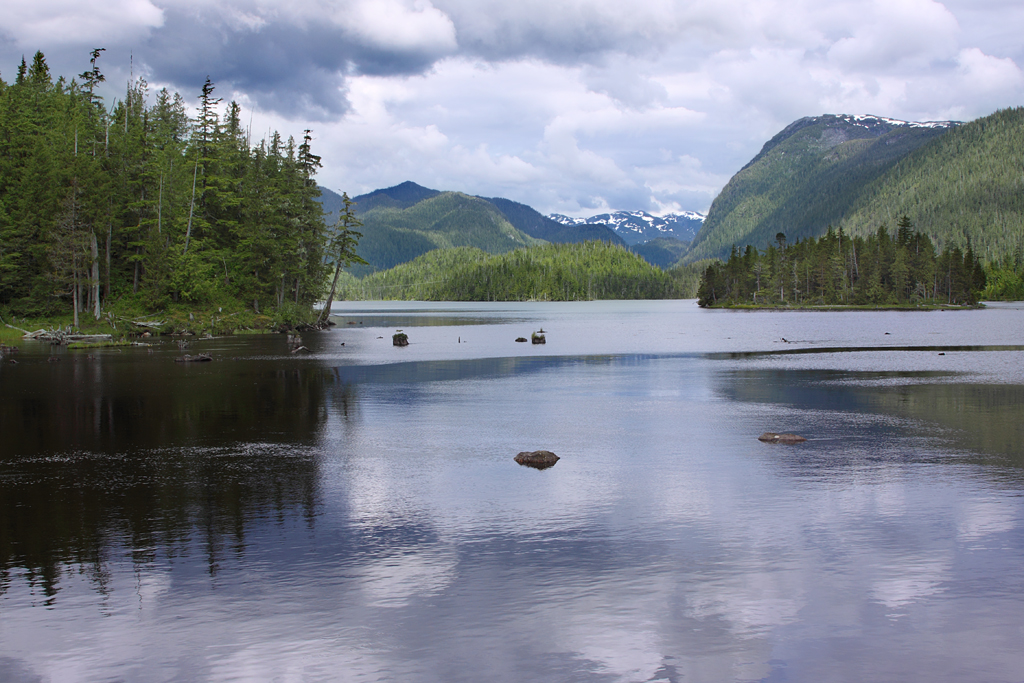 Prudhomme Lake is situated just a few mile East of Prince Rupert. BC.